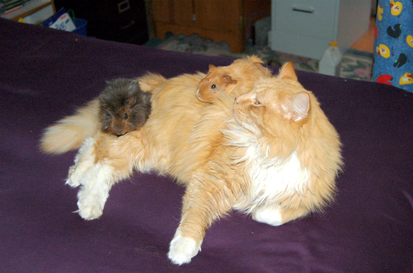 A cat which has learned to accept two guinea pigs. Some cats and dogs, depending entirely on the individual animal, may be able to safely interact with guinea pigs. However, leaving cats or dogs alone with guinea pigs is never advised.